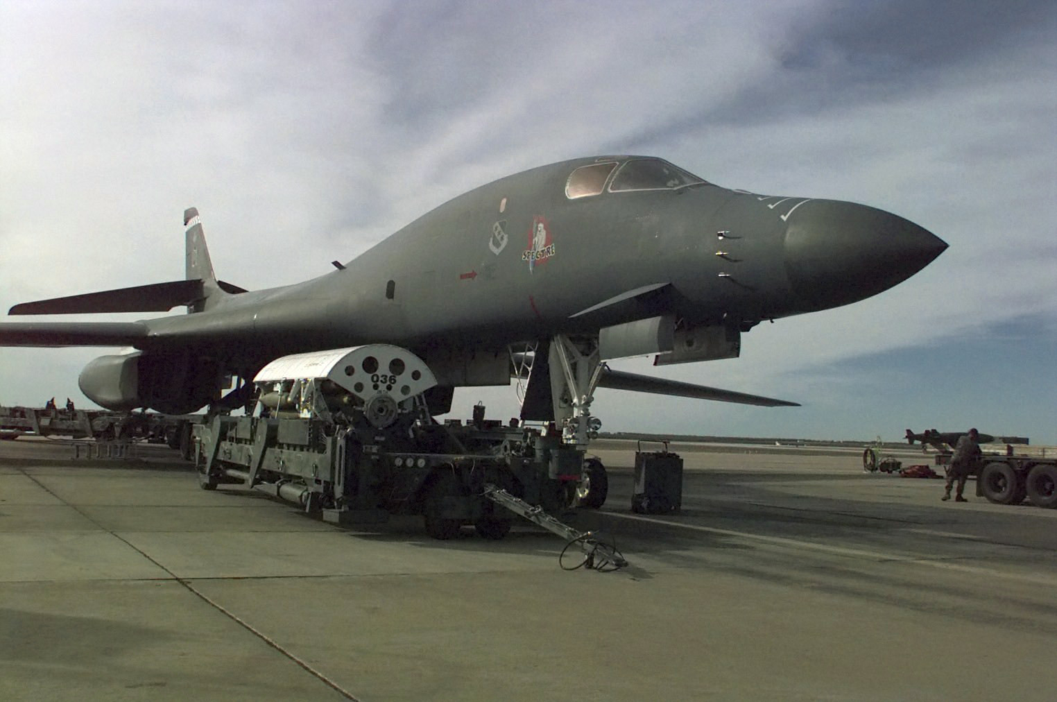 The B-1B "Spectre" from the 28th Bomb Squadron loads its rotary launcher MK-82 bombs in preparation for Operation Desert Fox at Dyess Air Force Base, Texas on December 17,1998. Air Force photo by Staff Sgt. Krista M. Foeller